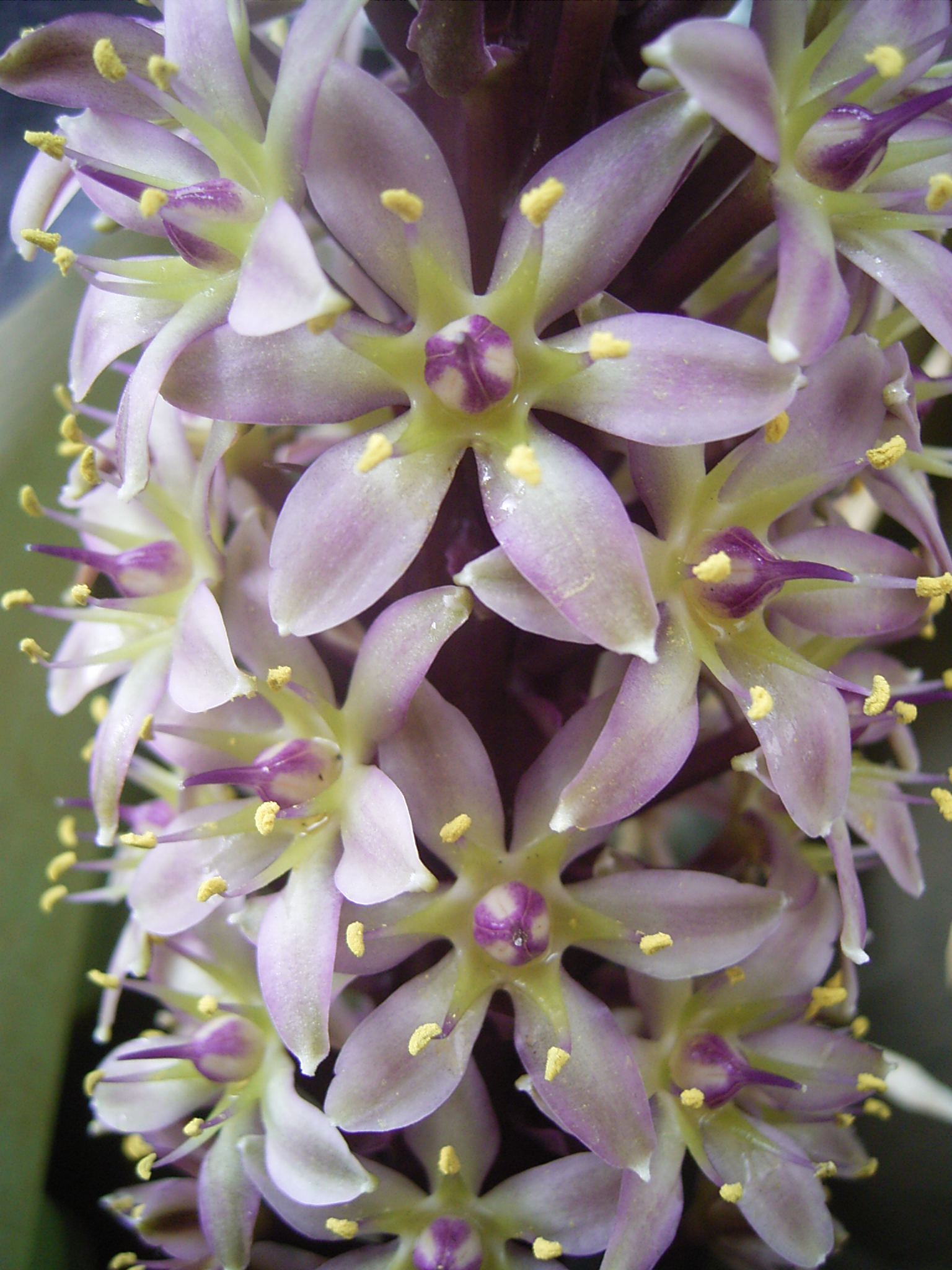 This photo shows Eucomis bicolor